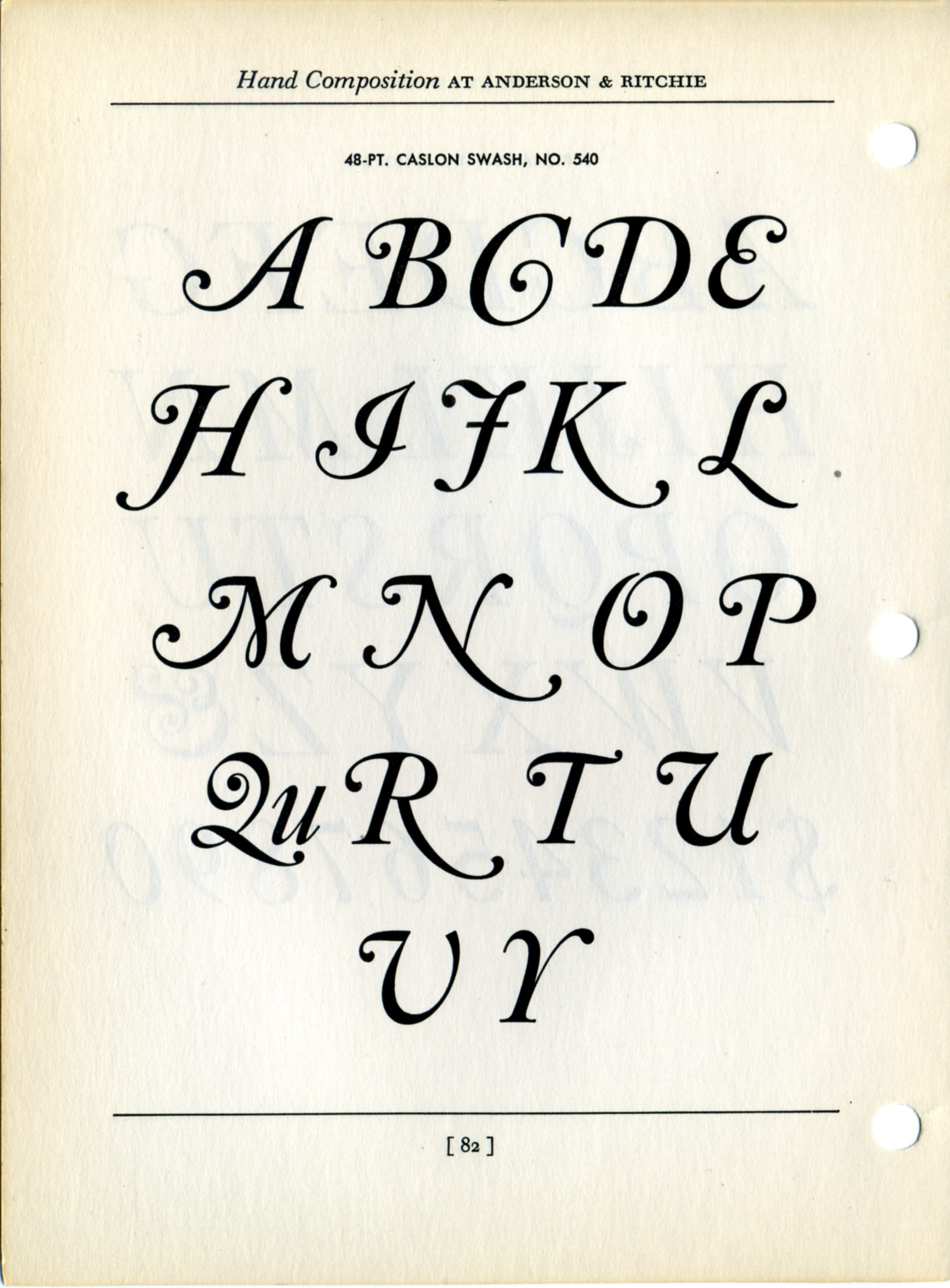 A set of swash caps sold with Caslon fonts in the metal type period.